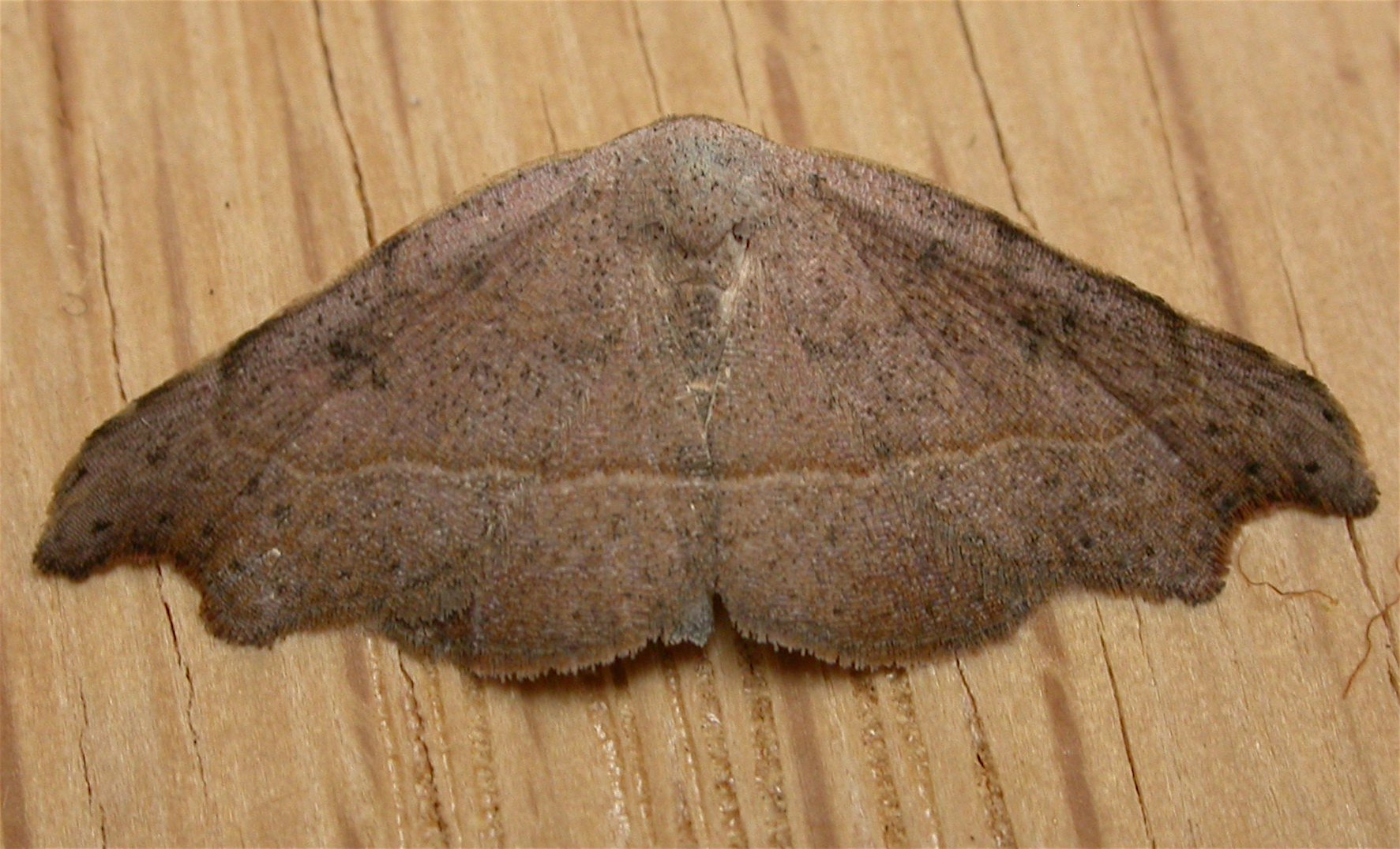 Sophta concavata Walker, [1863], to MV light, Aranda, ACT, 28/29 October 2008